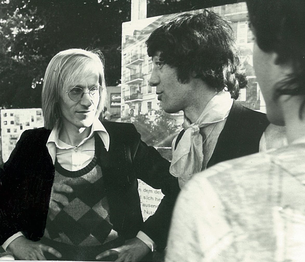 The two artists friends Alfred von Meysenbug and Natias Neutert at a festival in Hamburg-Winterhude, 1977.